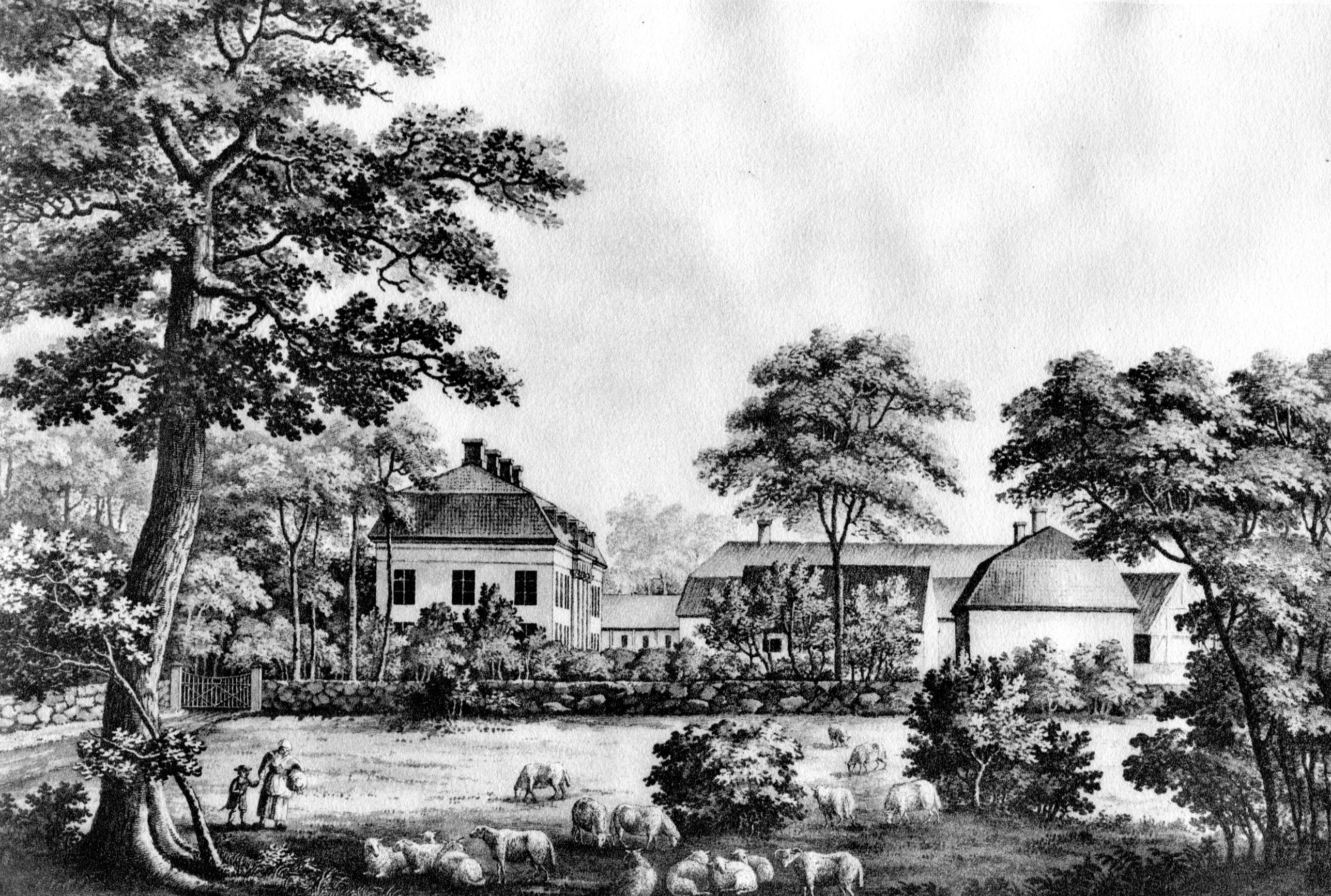 The manor Skillinge outside Ängelholm, Sweden